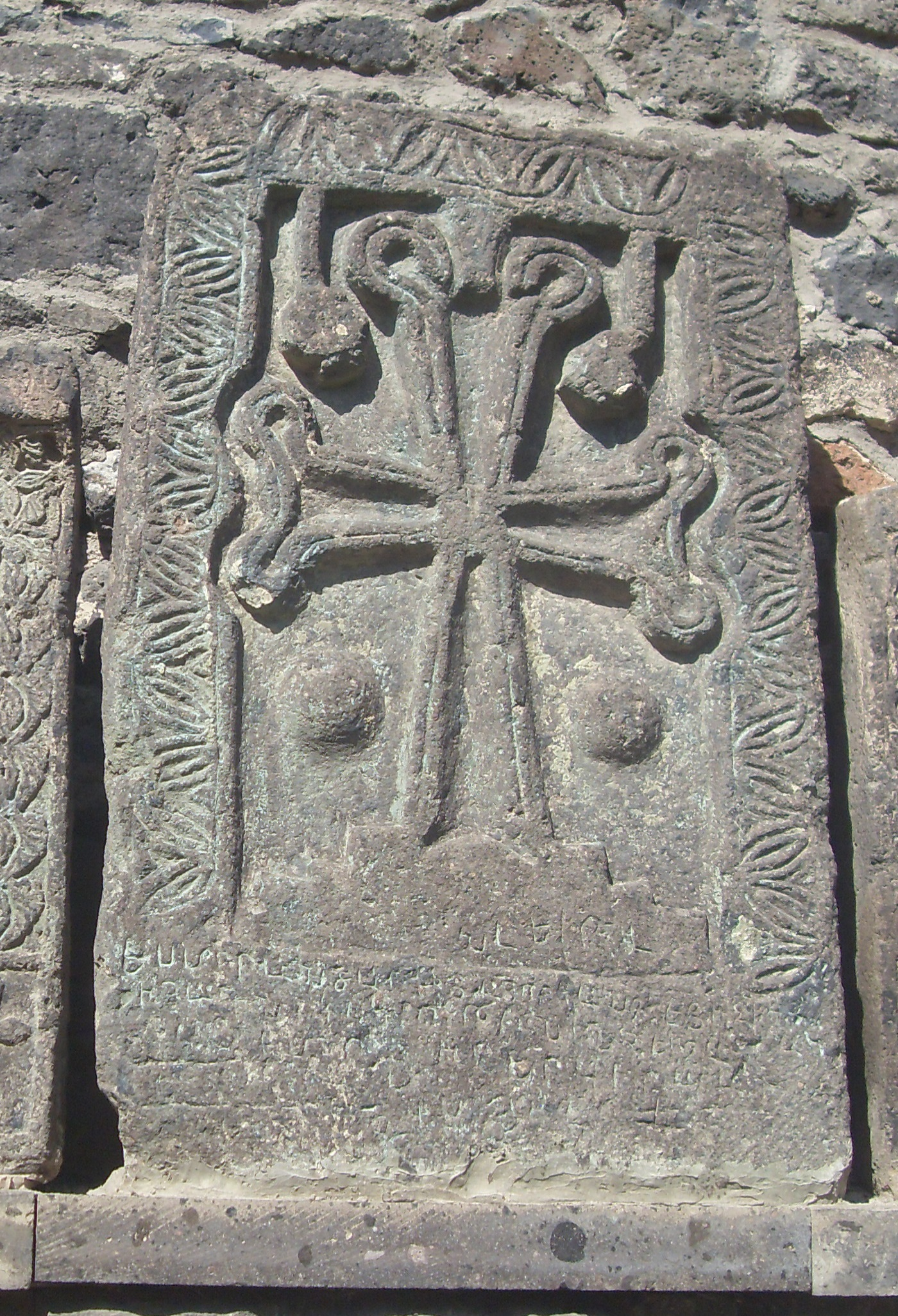 986 khatchkar in Saint Gevork Monastery of Mughni 1.1/7.3.1